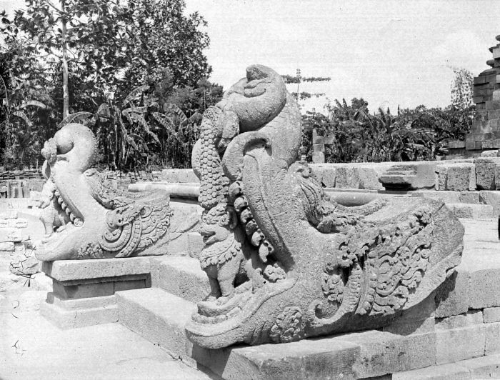 Stone makara sculptures at the Candi Kalasan